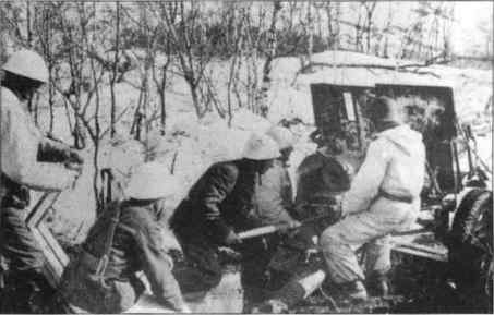 A Norwegian Army 7.5 cm field gun m/01 (with modernized carriage) in action during the fighting north of Narvik